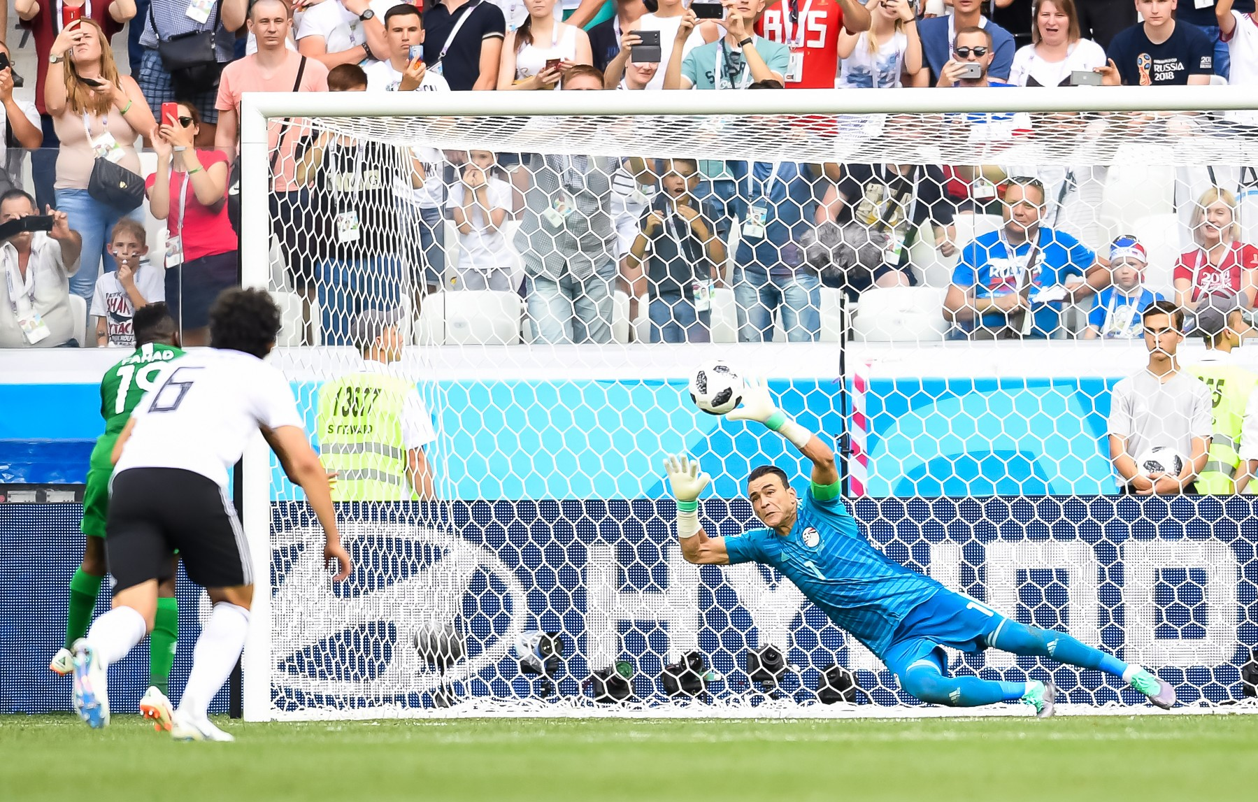 Essam El-Hadary